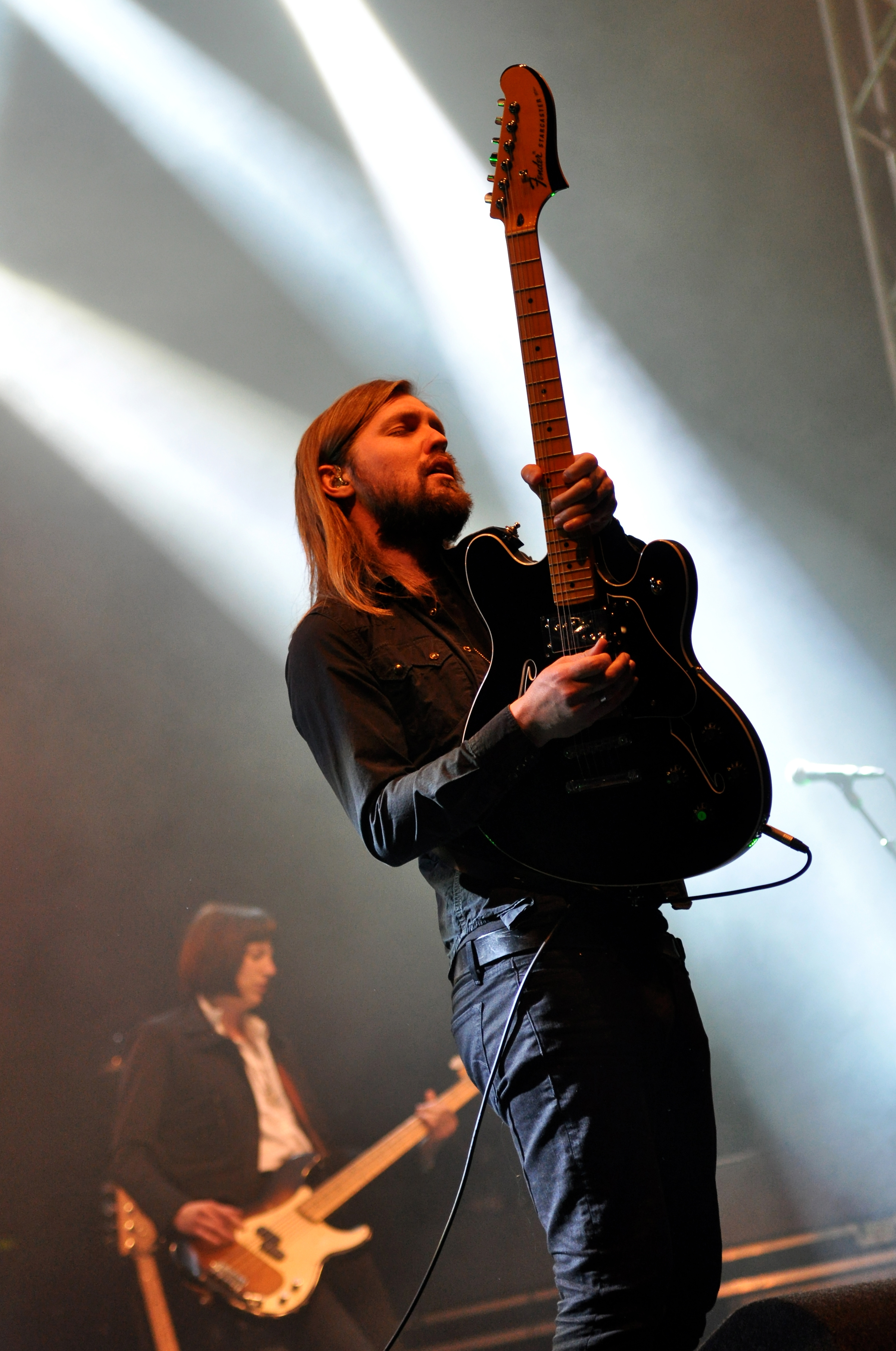 Russell Marsden, guitarist of Band of Skulls, at Paaspop 2014